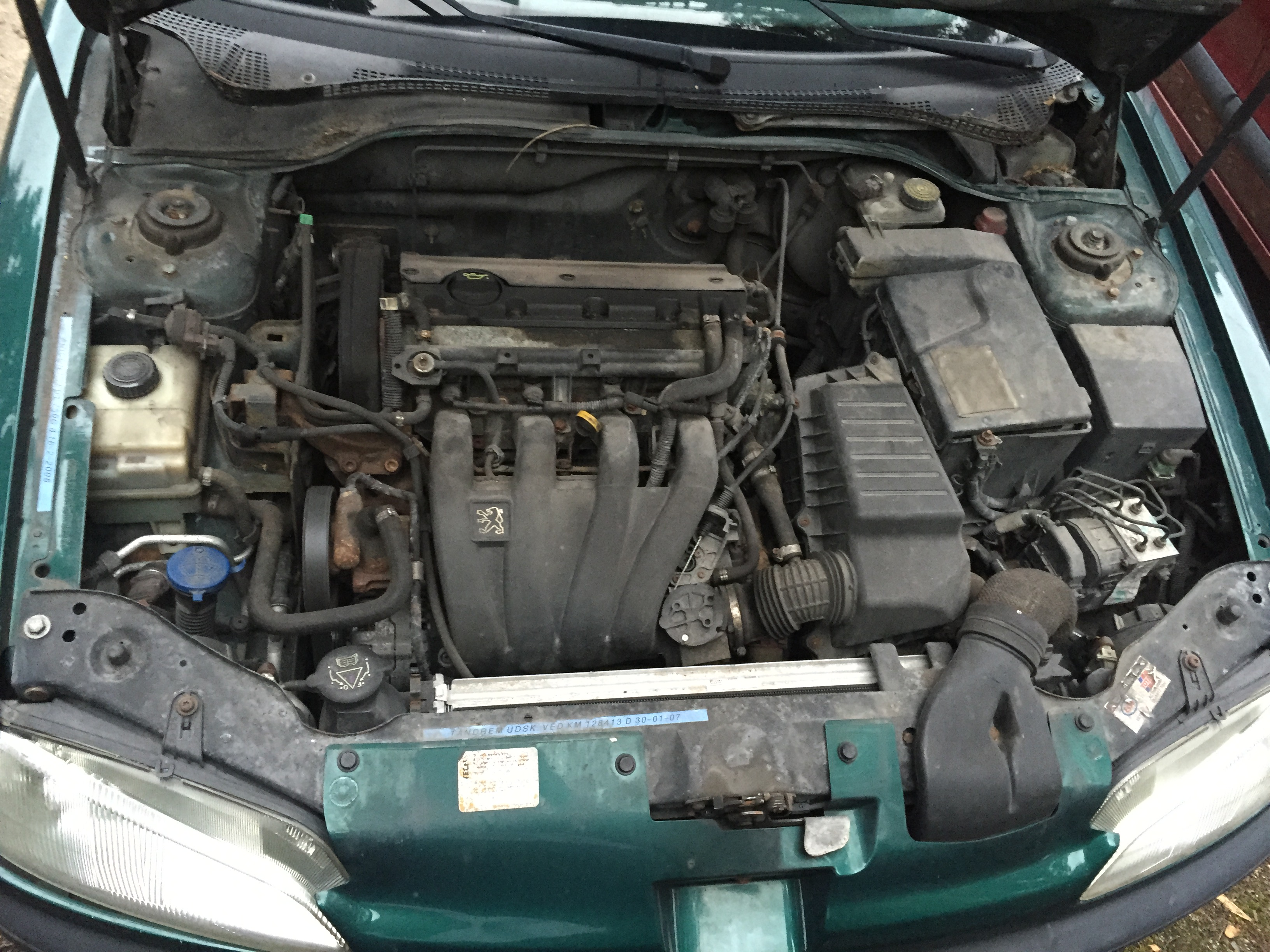 Engine compartment of 1999 MY Peugeot 306 1.8i 16V